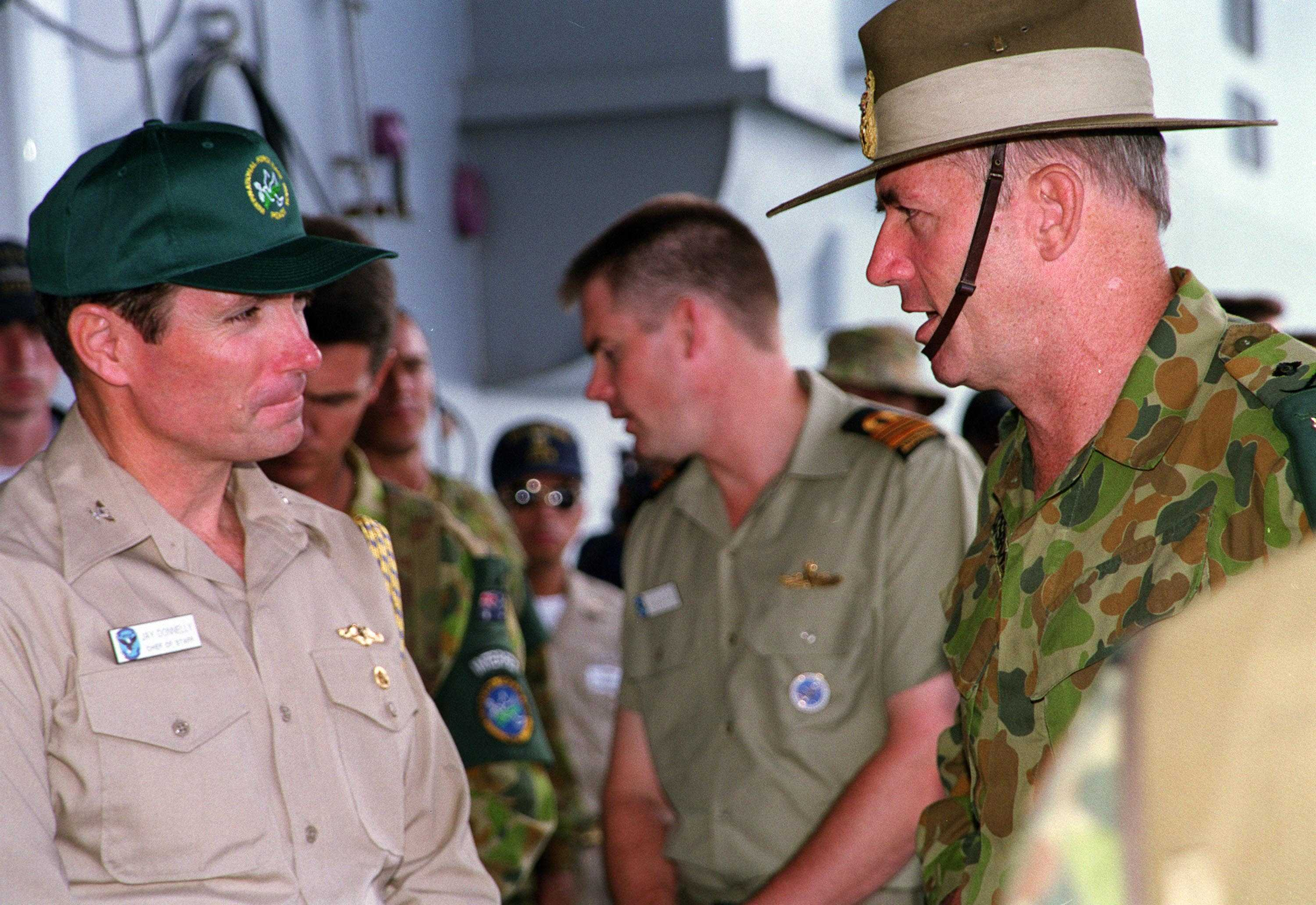 USS Blue Ridge (LCC-19), 11 February 2000, Dili, East Timor--International Forces East Timor Major General Cosgove after Commander Seventh Fleet staff briefing. (Photo by PH3 Stein).